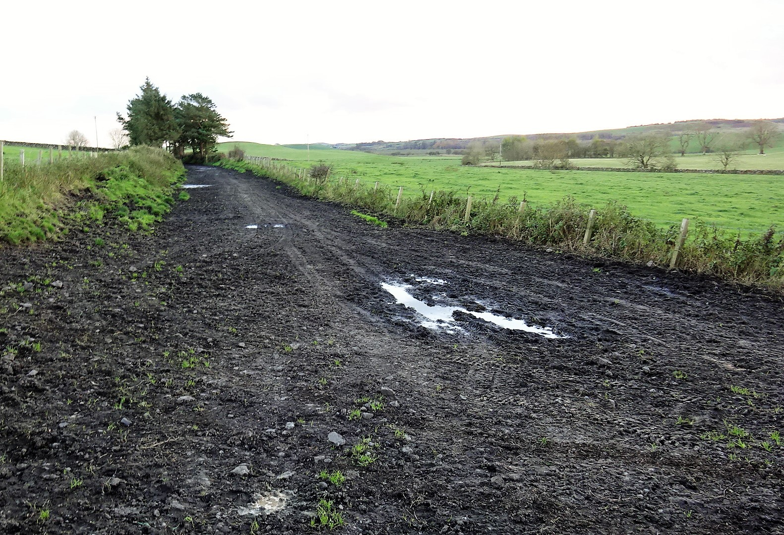 Trackbed of the Newton Stewart to Whithorn branch at the Clachan of Penninghame, Scotland. View towards Causeway End and Wigtown. A road overbridge was located here and Mains of Penninghame Platform was in the vicinity until 1885.